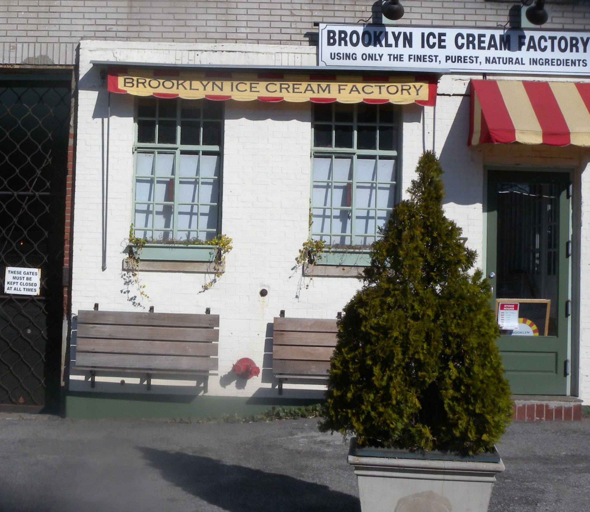 Looking north across Commercial Street at Brooklyn Ice Cream Factory on a sunny morning.